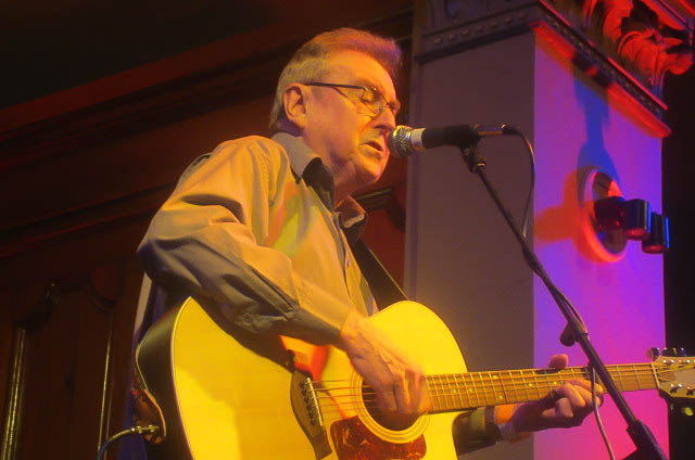 Doug Ashdown performing at the Mortlock Library, Adelaide, Australia on Feb 9 2015, as part of an Adelaide Music Collective event.